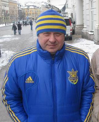 Before match against Poland in 22 march 2013.